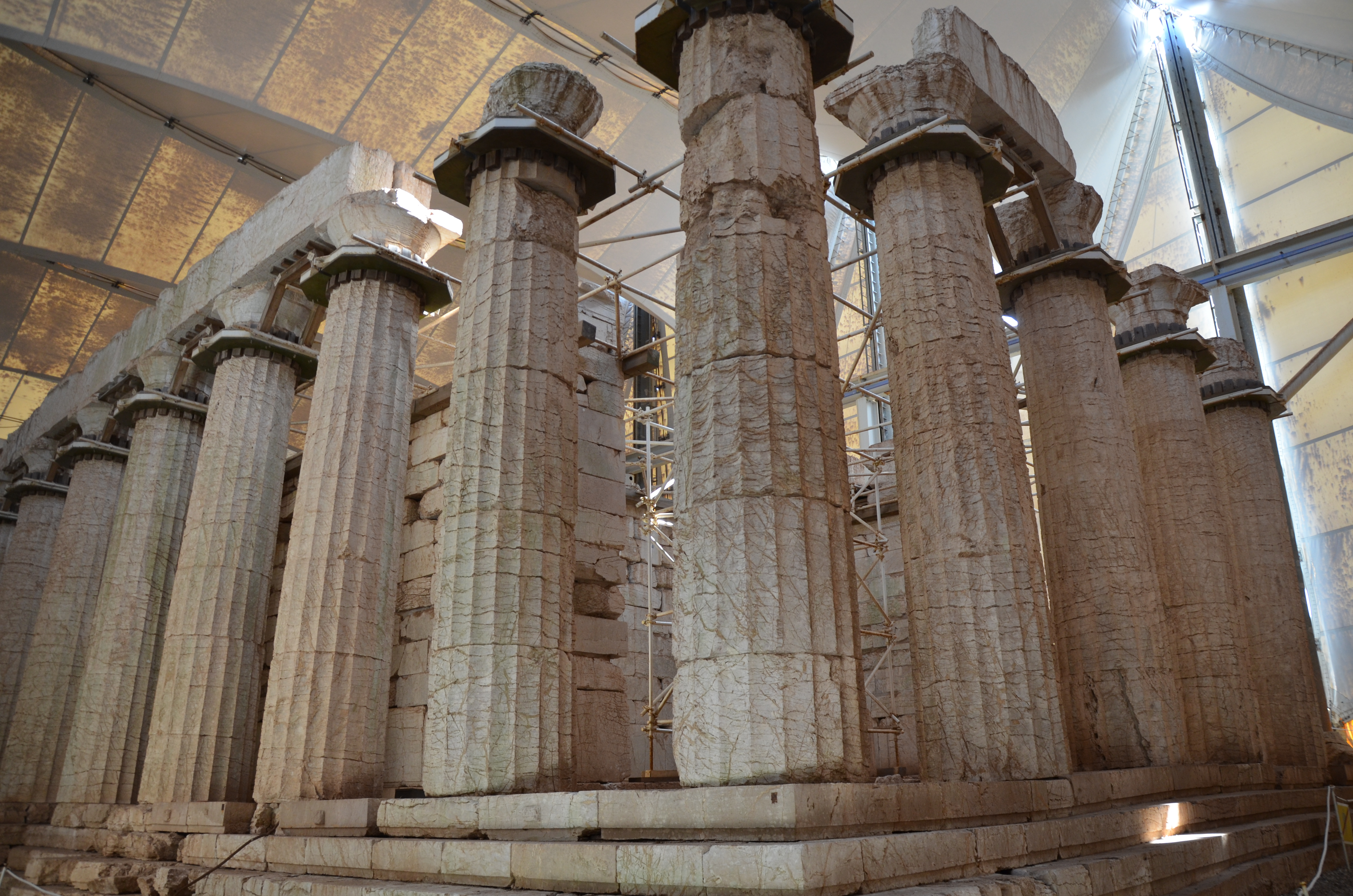 The Temple of Apollo Epikourios at Bassae, south-east corner, Arcadia, Greece